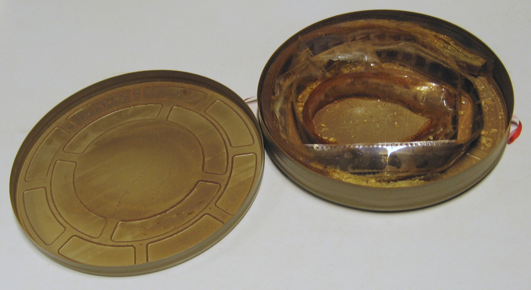 Film can with decayed nitrate film, EYE Film Institute Netherlands, Amsterdam.